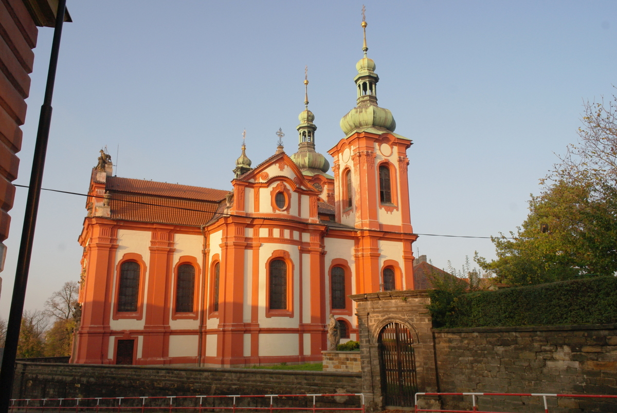 Church of the Assumption of the Virgin Mary, Square, Zlonice. View from the south.